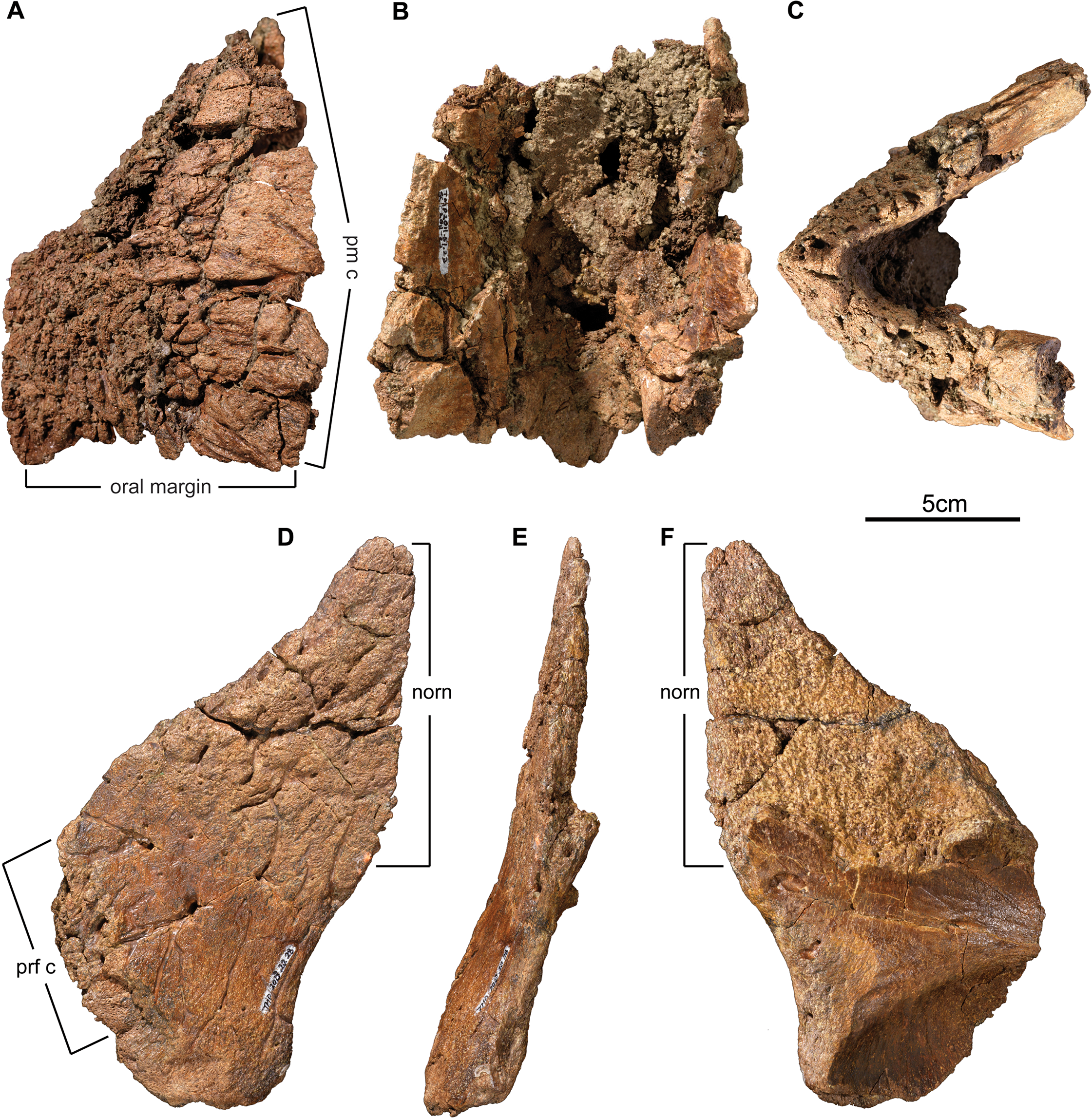 Rostral and nasal bone of Wendiceratops pinhornensis. Specimen TMP 2011.051.0023, fragmentary rostral, in A) left lateral, B) posterior, and C) ventral views. Specimen TMP 2013.020.0028, right nasal fragment, in D) right lateral, E) anterior, and F) internal views. The preserved nasal ornamentation (norn) represents only the lower portion of what is inferred to be a prominent, erect horncore. Abbreviations: norn, nasal ornamentation; pm c, premaxilla contact; prf c, prefrontal contact.